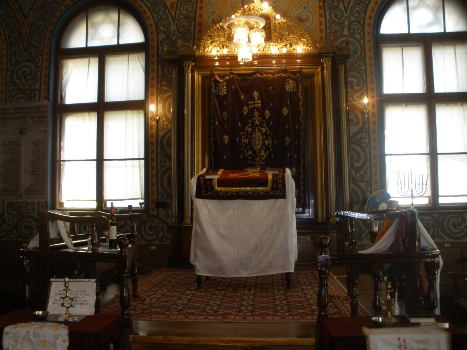 The Synagogue in Plovdiv. Credit: Courtesy of Yossi Nevo .